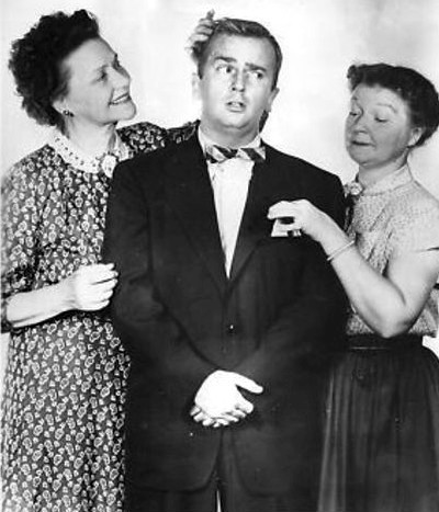 Publicity photo of Jack Kelk with Jane Seymour (left) and Nydia Westman (right) from Young Mr. Bobbin.